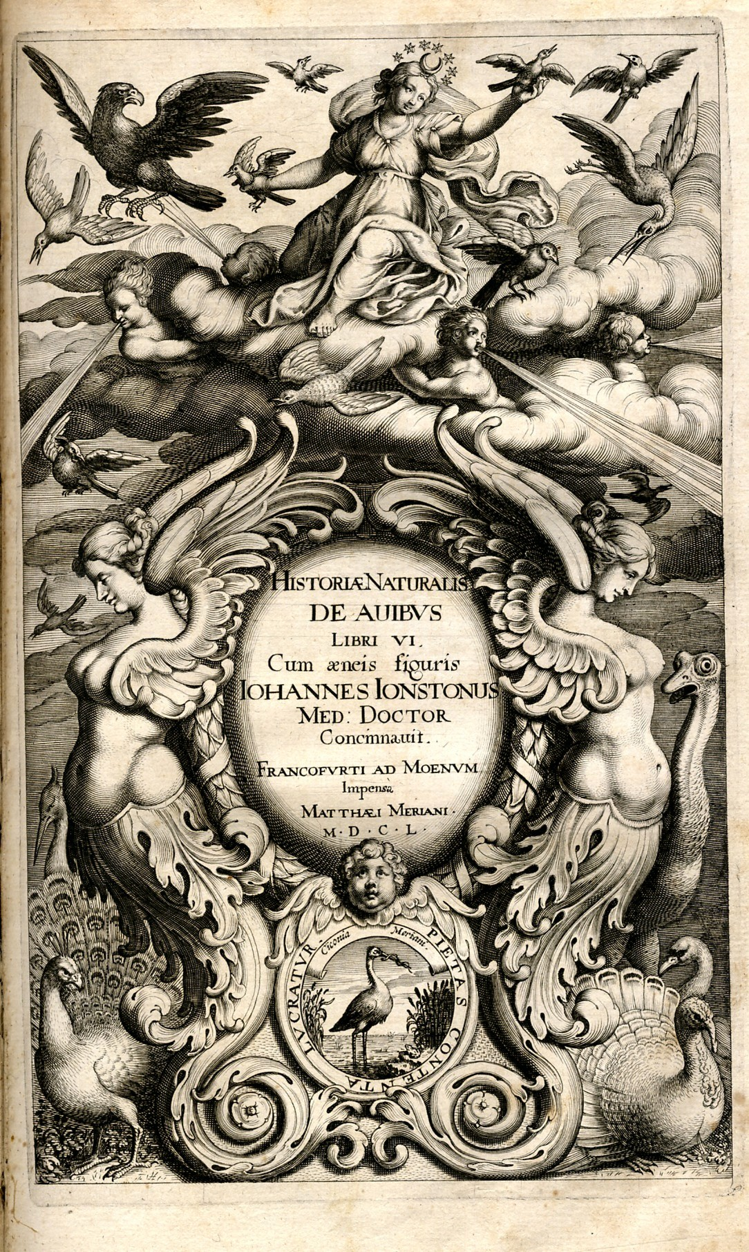 Jan Jonston: "Historiae Naturalis De Avibus", Titelblatt, Kupferstich.